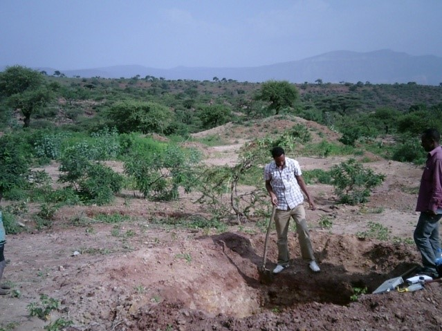 Lithic Leptosol in Agbe Ethiopia